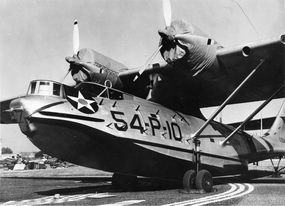 PictionID:41554030 - Title:Consolidated PBY-2 0454 VP-54 54-P-10 first USN plane with radar NAS Norfolk - Catalog:16_000536 - Filename:16_000536.tif - - - - - - Image from the Ray Wagner Collection. Ray Wagner was Archivist at the San Diego Air and Space Museum for several years and is an author of several books on aviation --- ---Please Tag these images so that the information can be permanently stored with the digital file.---Repository: San Diego Air and Space Museum